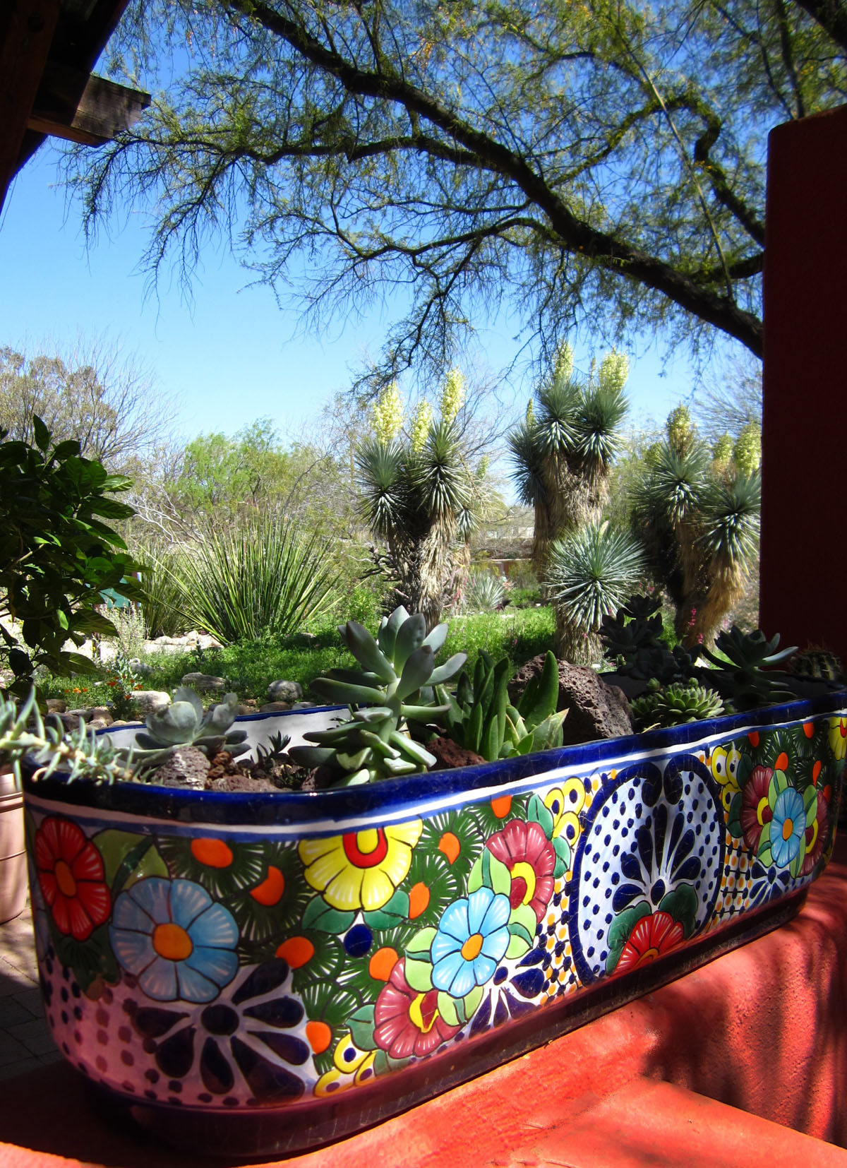 A view of potted succulents as they point towards yucca plants in the distance at Tucson Botanical Gardens.